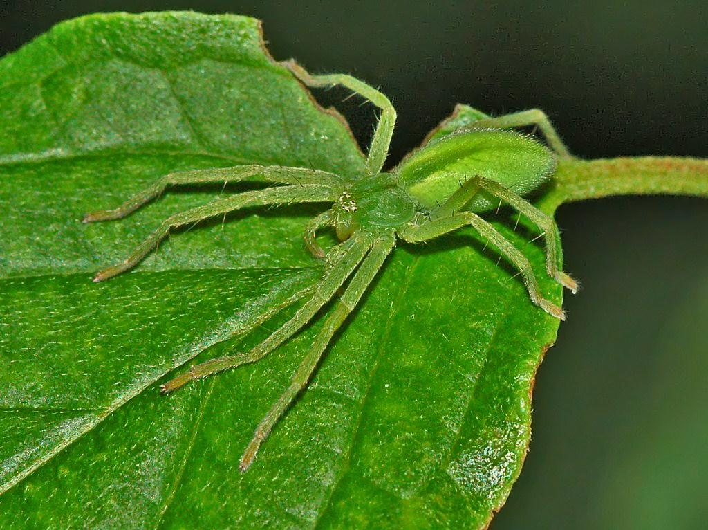 Female of Micrommata virescens